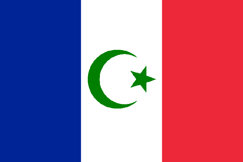 Flag of France with islam symbol